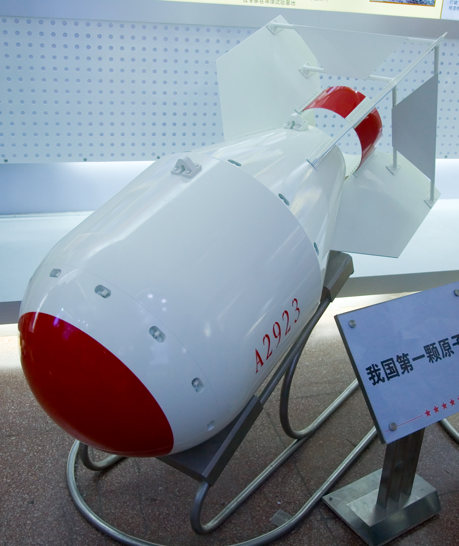 Chinese nuclear bomb on display at "Our troops towards the Sky". Podium says: "Our first atom bomb." Notice general similarity in shape to Fat Man and RDS-1.